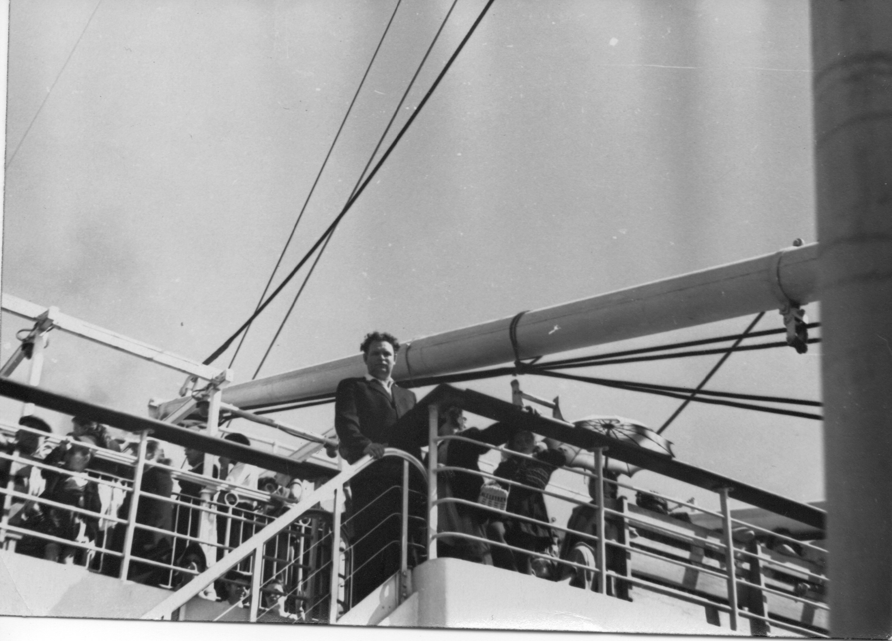 Admiral Nakhimov liner on the Black Sea cruise. 1957.